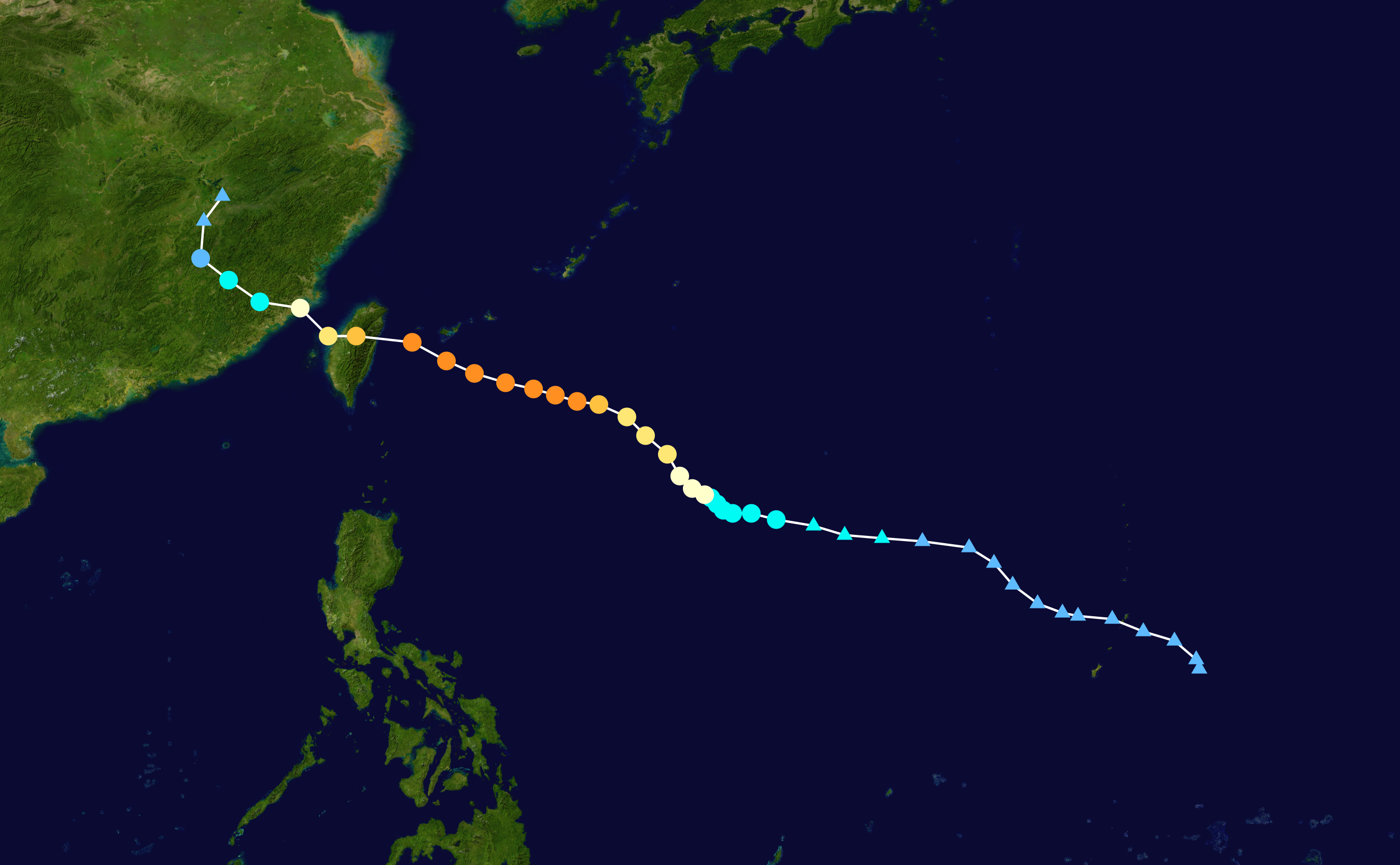 Track map of Typhoon Dujuan of the 2015 Pacific typhoon season. The points show the location of the storm at 6-hour intervals. The colour represents the storm's maximum sustained wind speeds as classified in the Saffir–Simpson scale (see below), and the shape of the data points represent the nature of the storm, according to the legend below. Saffir–Simpson scale Tropical depression≤38 mph≤62 km/h Category 3111–129 mph178–208 km/h Tropical storm39–73 mph63–118 km/h Category 4130–156 mph209–251 km/h Category 174–95 mph119–153 km/h Category 5≥157 mph≥252 km/h Category 296–110 mph154–177 km/h Unknown Storm type Tropical cyclone Subtropical cyclone Extratropical cyclone / Remnant low / Tropical disturbance / Monsoon depression